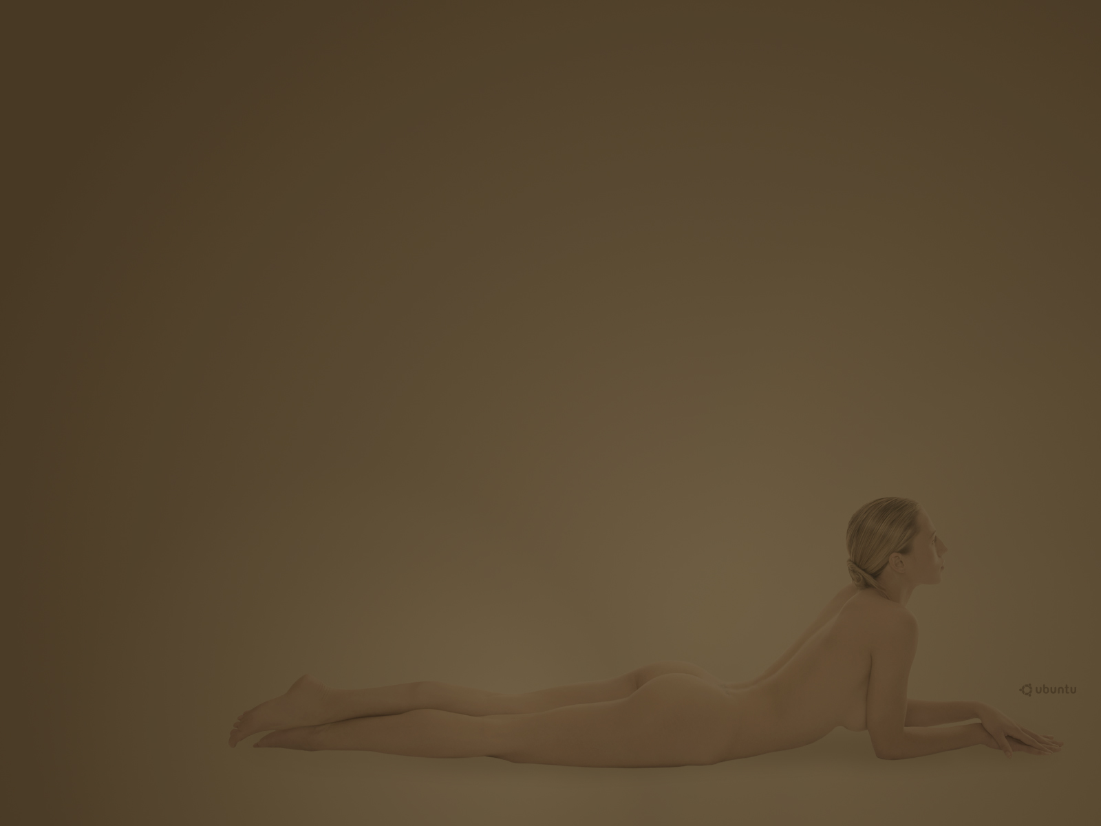 Photo from the package "Ubuntu Calendar"